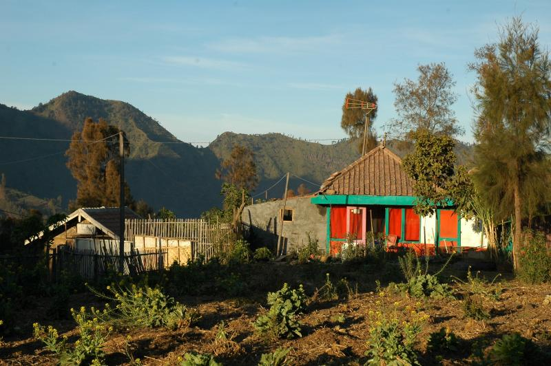 House in Cemoro Lawang, East Java.